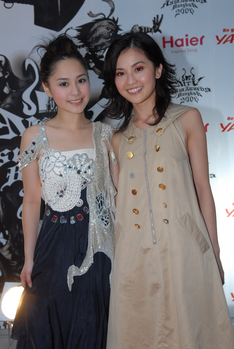 Twins at the red carpet on MTV Asia Awards 2006,Bangkok, Thailand